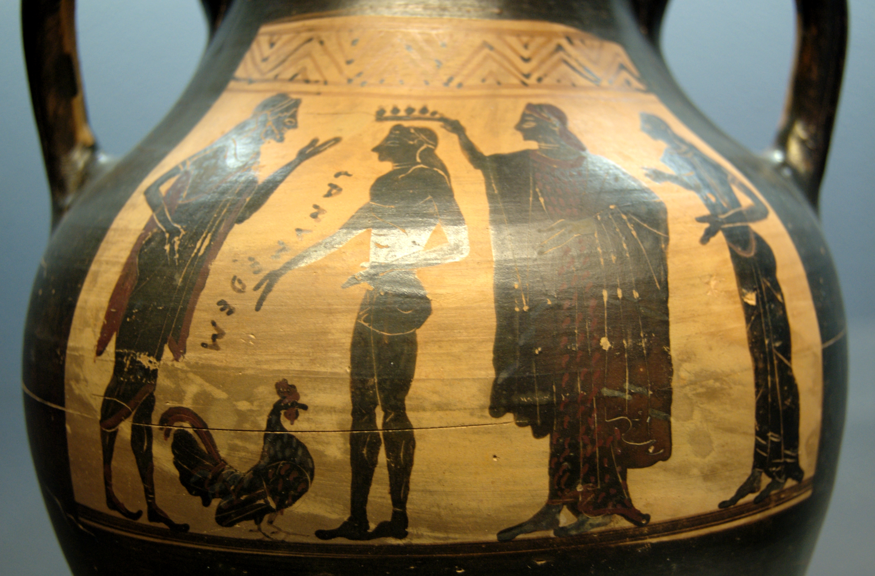 Ganymede on Olympus, surrounded by Zeus who offered him a cock, a goddess crowning him and Hebe. Side A of an Attic black-figure amphora, ca. 510 BC.